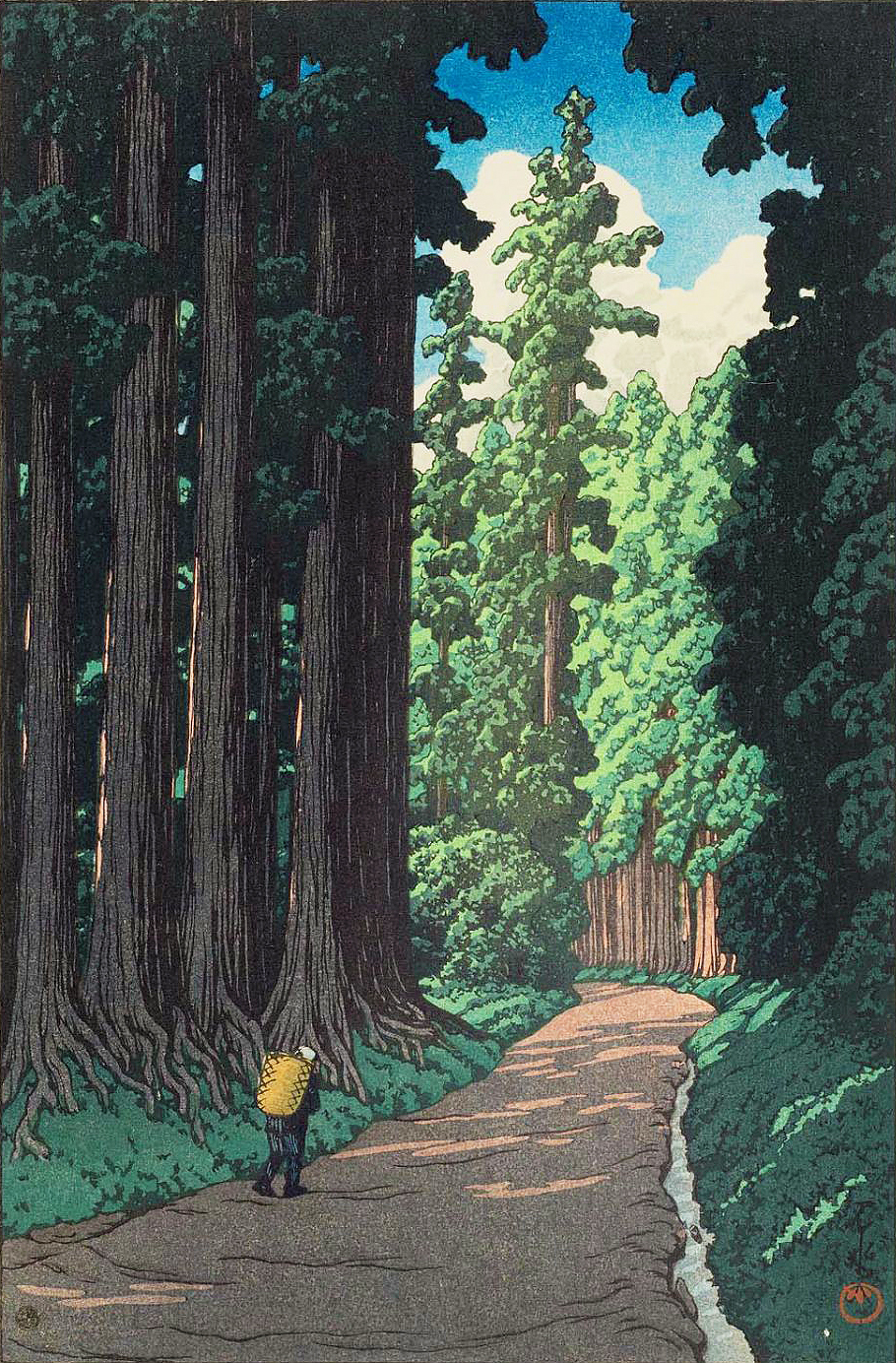 Nikkō Kaidō, woodblock print